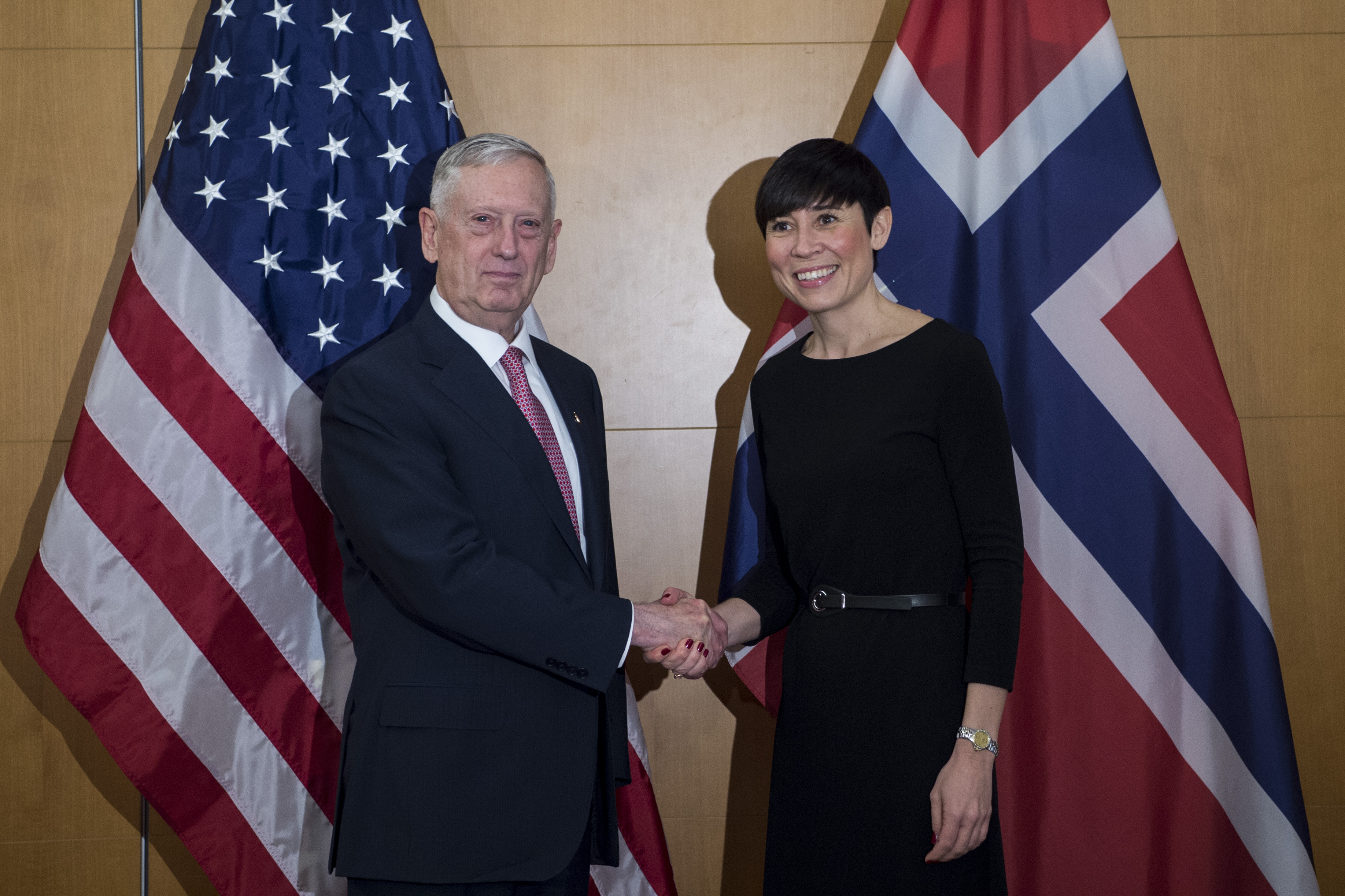 Secretary of Defense Jim Mattis conducts a bilateral meeting with Norwegian Minister of Defense Ine Eriksen Søreide before attending the Munich Security Conference in Munich, Germany, Feb. 17, 2017. (DOD photo by U.S. Air Force Tech. Sgt. Brigitte N. Brantley)